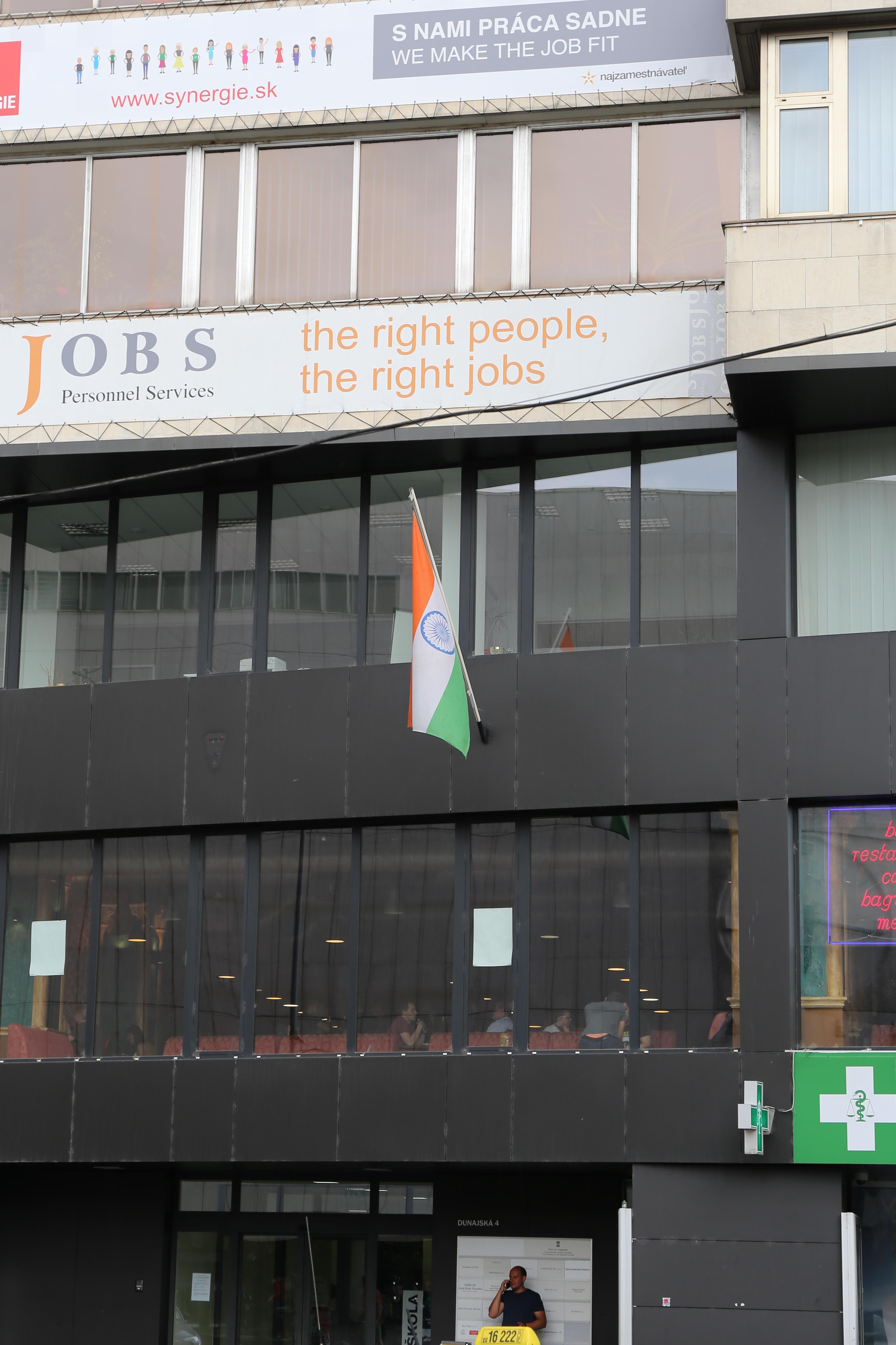 Embasy of India in Bratislava.